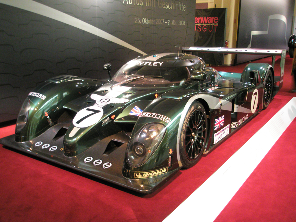 Bentley Speed 8 photograph taken at a car exhibition and uploaded on DeviantArt with the same CC license as well.